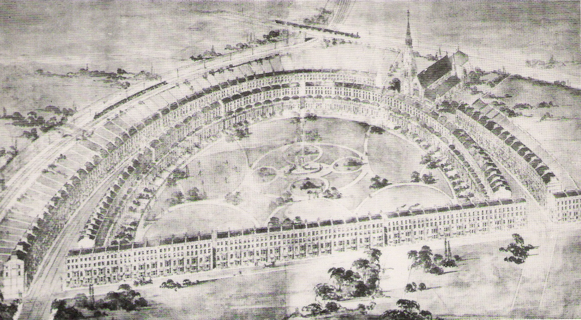 Taken from an estate agent's poster circa 1875. Out of copyright.